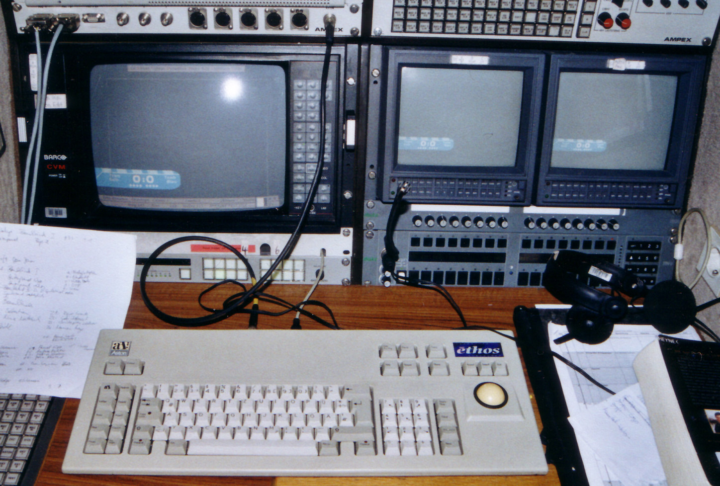 Image of keyboard and monitors of an AstonEthos character generator, placed in a Broadcast Truck of Studio Berlin, Germany, Taken in Winter 2005, Analogue Camera